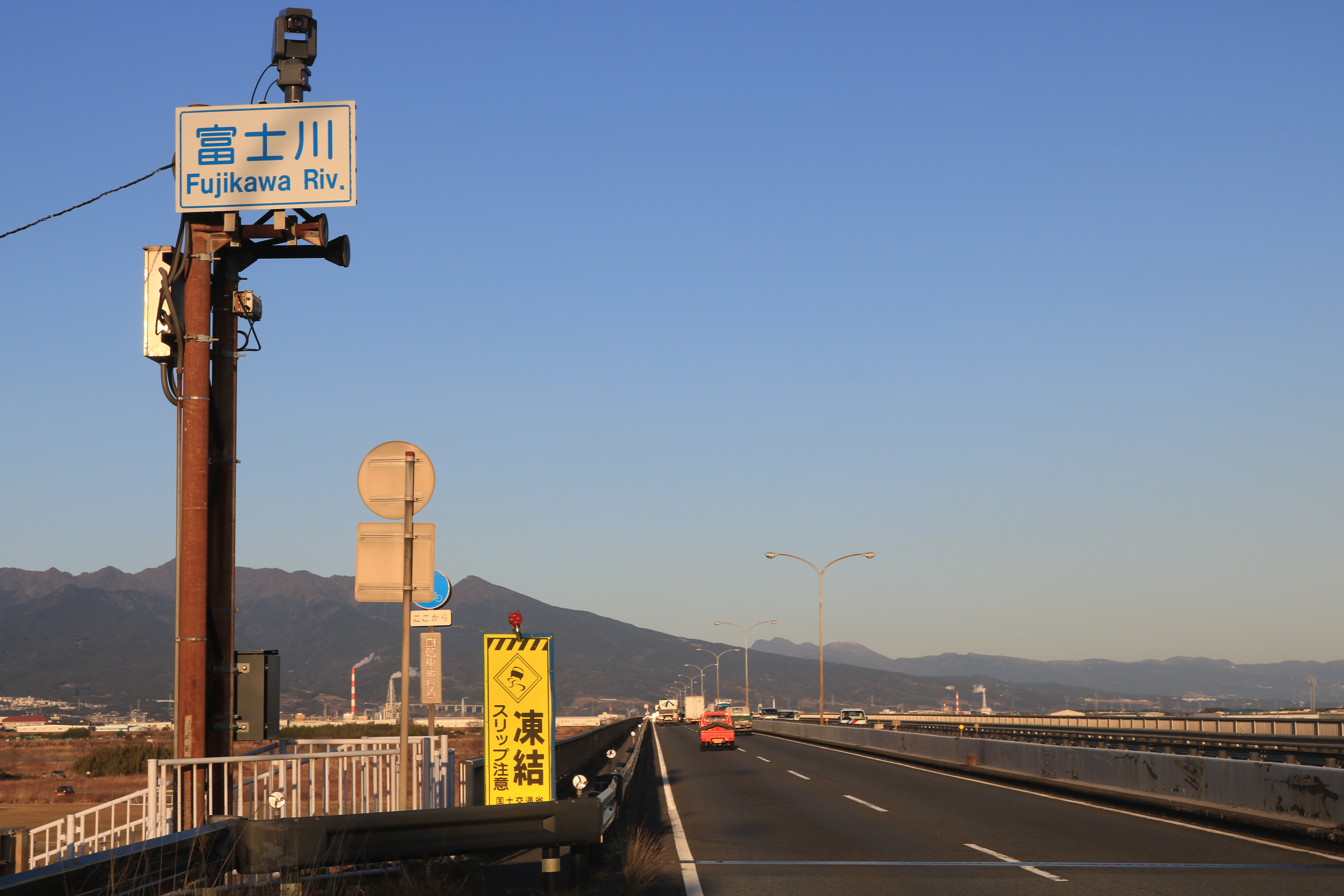 Shinfujikawa Bridge of Fuji-Yui Bypass (Japan National Route 1) over Fuji River seen from west in Shizuoka prefecture, Japan.